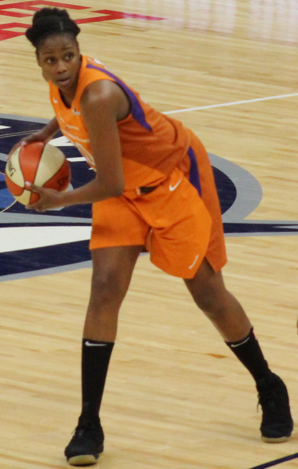 Camille Little of the Phoenix Mercury in 2018